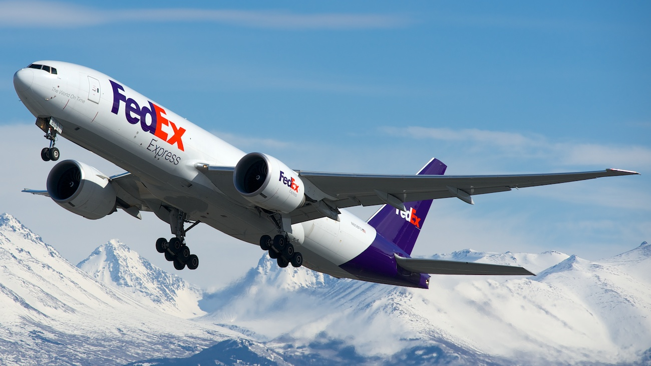 Departing Runway 32 Anchorage.